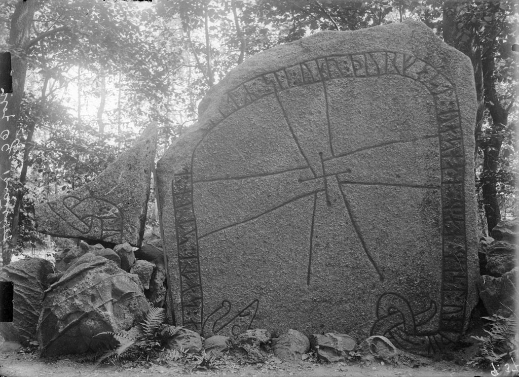 Rune stone (Ög 77) at Hovgården in Hov. In the middle a cross. The inscription says: "Tunna raised this stone in memory of her husband Torfast. He was amongst people the least of a villain".